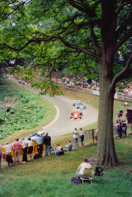 Shelsley Walsh hillclimb - 'The Esses'